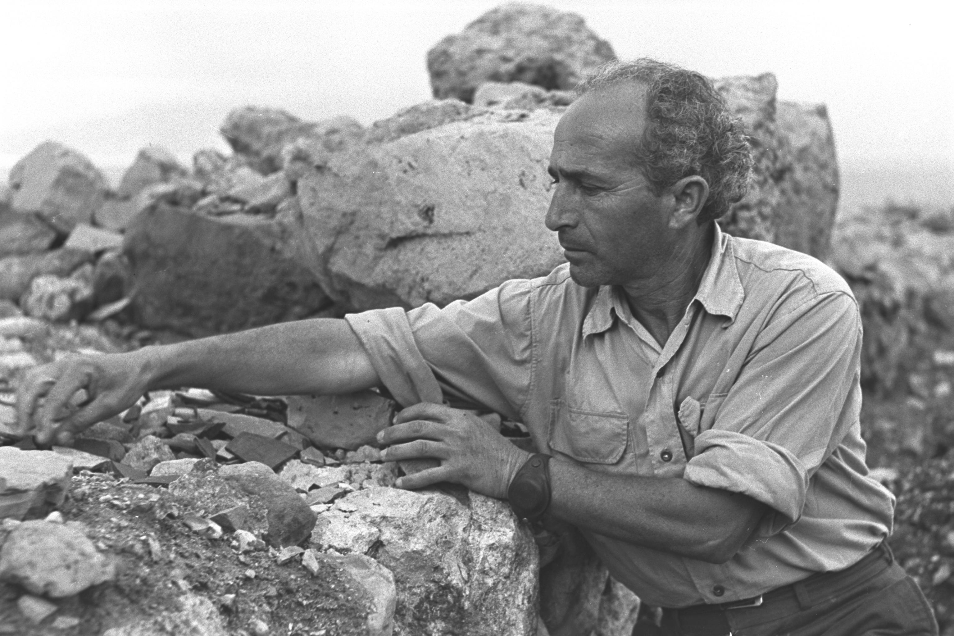 Original Description: S. GUTTMAN, ARCHAEOLOGIST, STUDYING FRAGMENTS OF EARTH ENWARE FOUND AT EIN BOKEK (UM BARAK) NEAR SDOM.